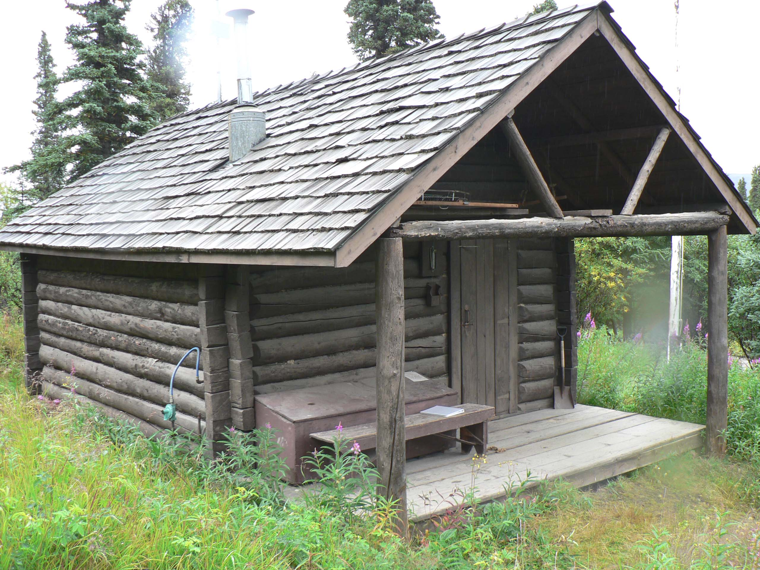 Igloo Creek Patrol Cabin, Denali National Park and Preserve, Alaska. Known as Igloo Creek Cabin No. 25